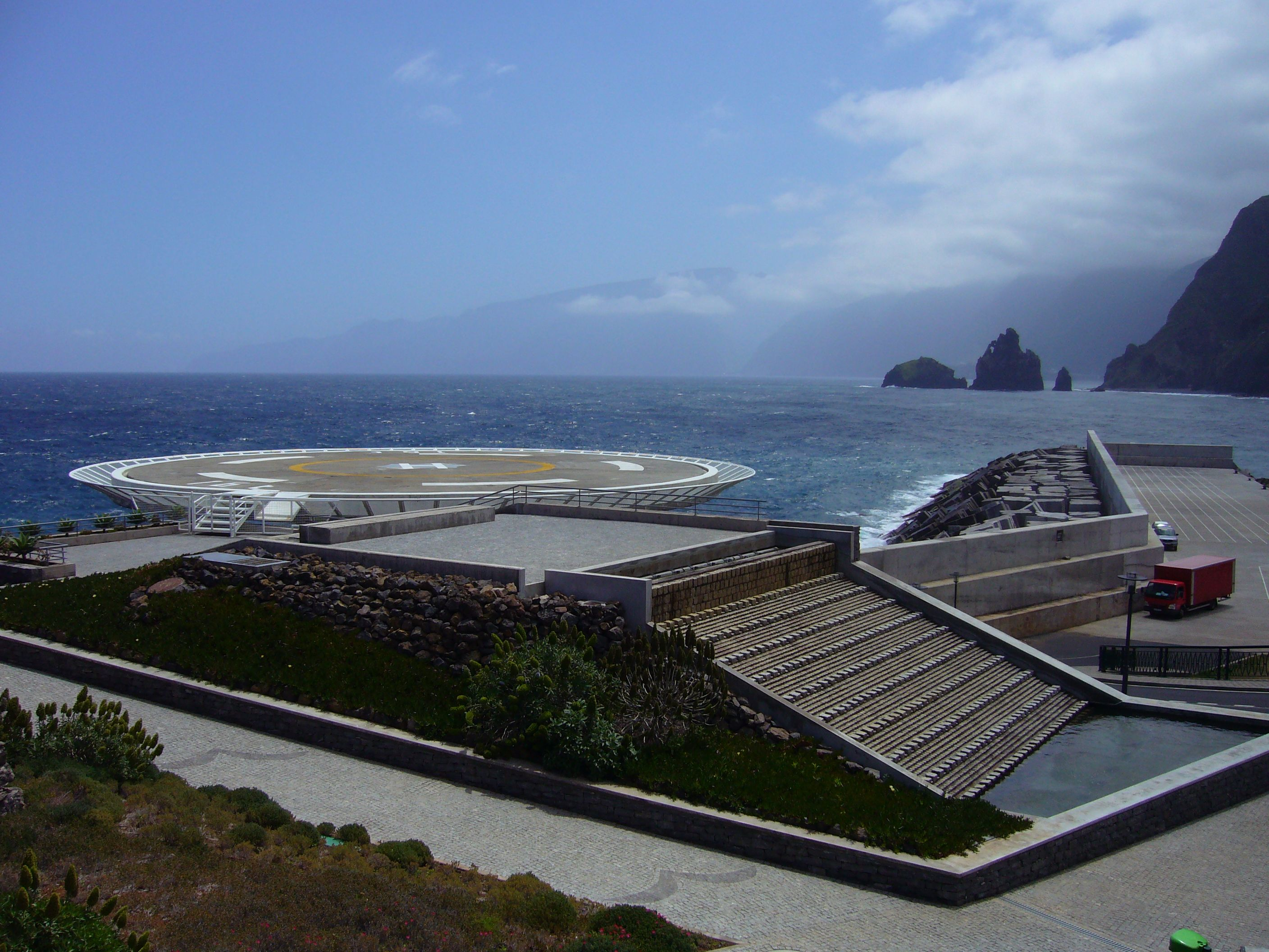 Heliport in Porto Moniz on the north cost.